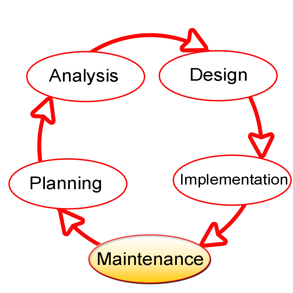 Systems Development Life Cycle - Maintenance bubble highlighted